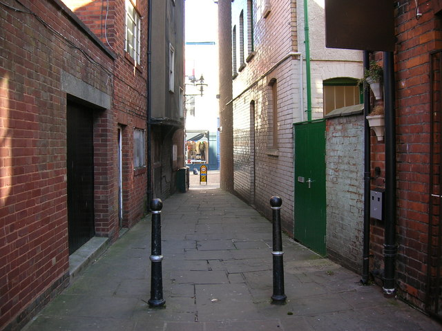 Gloucester, Bull Lane Bull Lane, Gloucester's narrowest street situated in town centre.